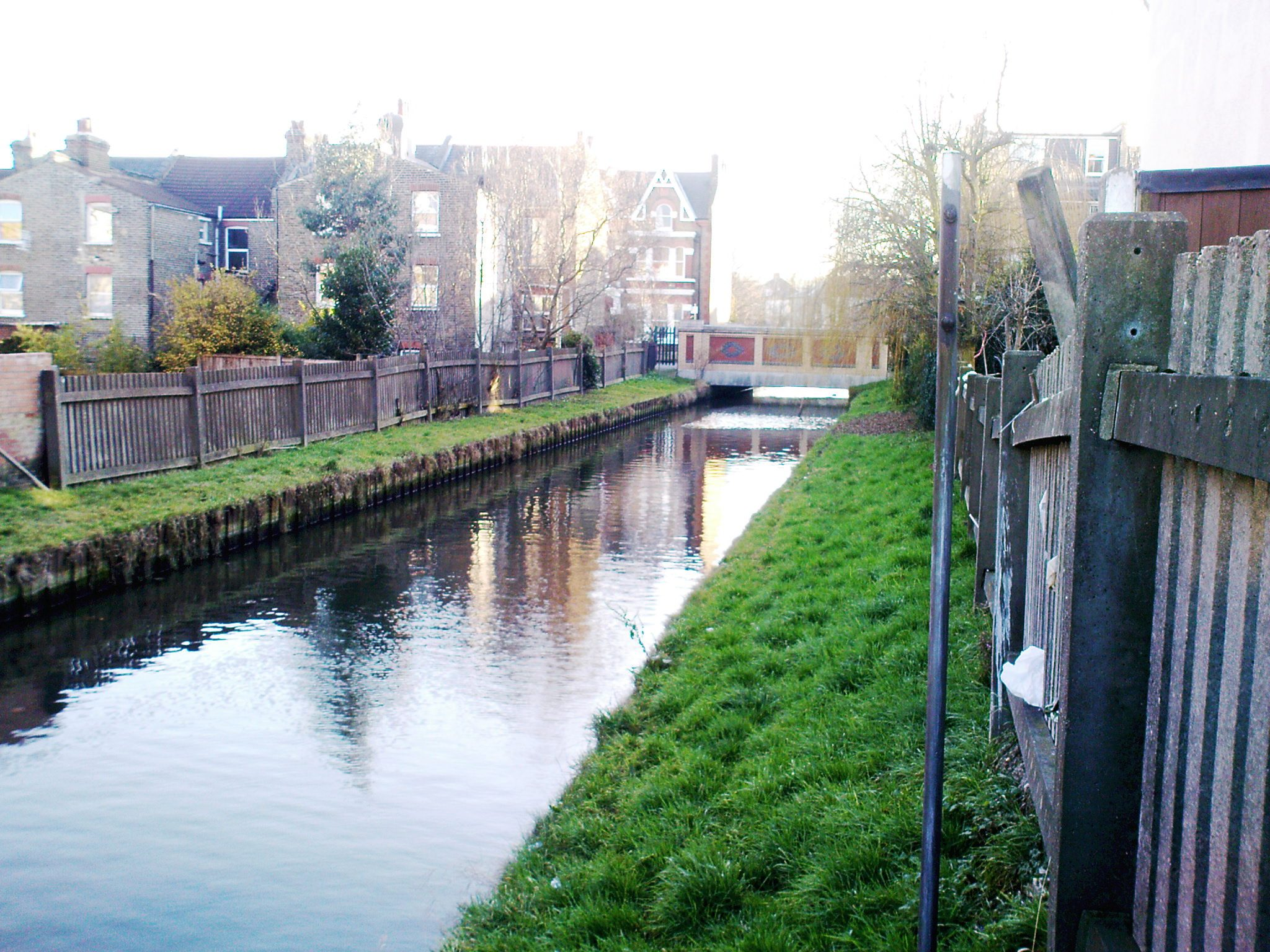 New River, Harringay, London